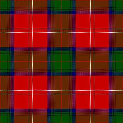 Chisholm tartan, as published in the Vestiarium Scoticum. Modern thread count: R2 G28 Bk2 G4 Bk2 G4 B14 R56 W2 R12.